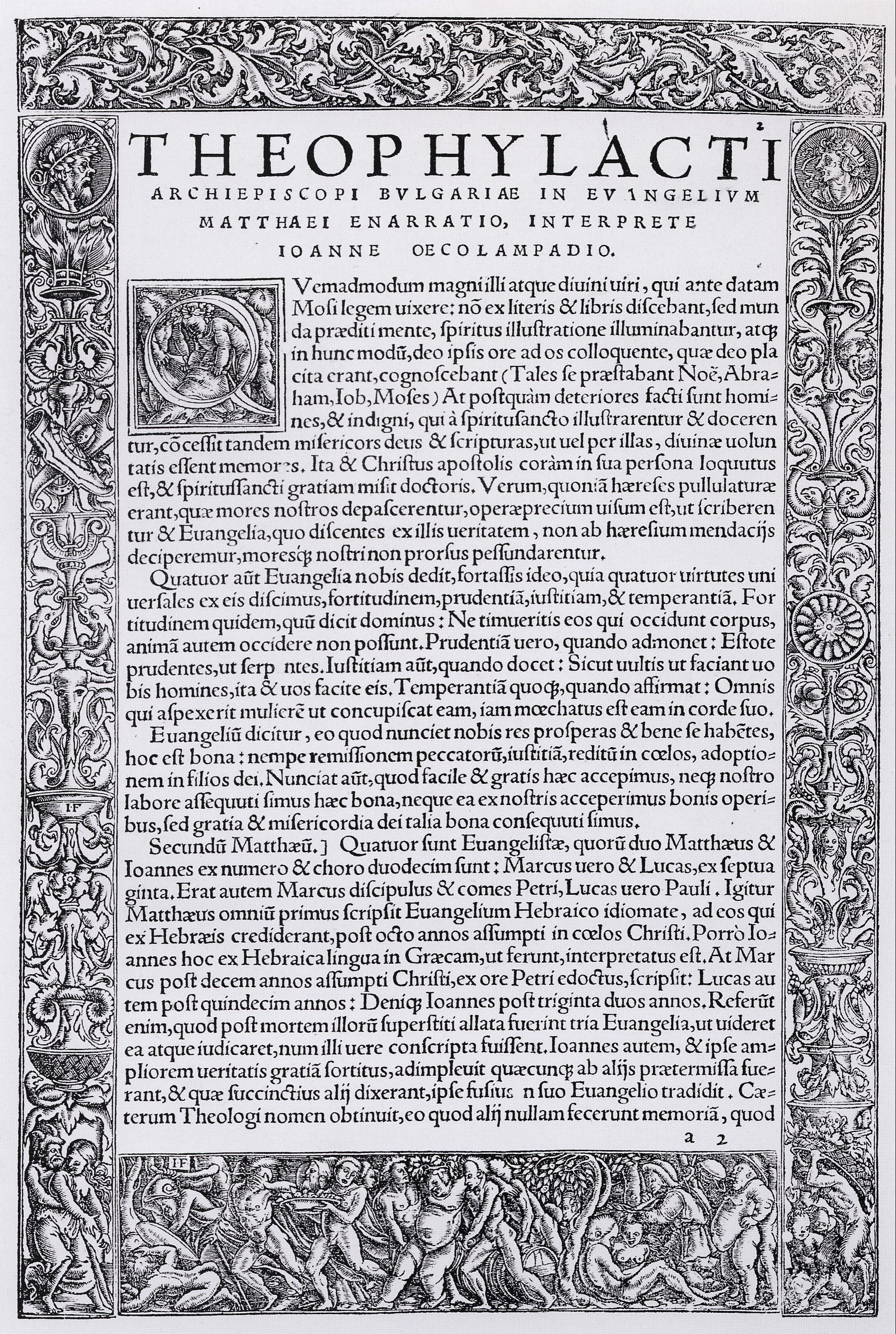 Text Page Border with Bacchanal. Metalcut, image 26.1 × 17.2 cm, sheet 29.7 × 20.4 cm, Kunstmuseum Basel. Used in Johannes Oecolampadius's Kommentar zu Theophylactus Archiepiscopus Bulgariae, 'In quator Evangelia enarrationes' , Basel: Andreas Cratander, March 1524. The four borders do not seem to have been originally designed to go together (Christian Rümelin, in Müller et al, p. 453).